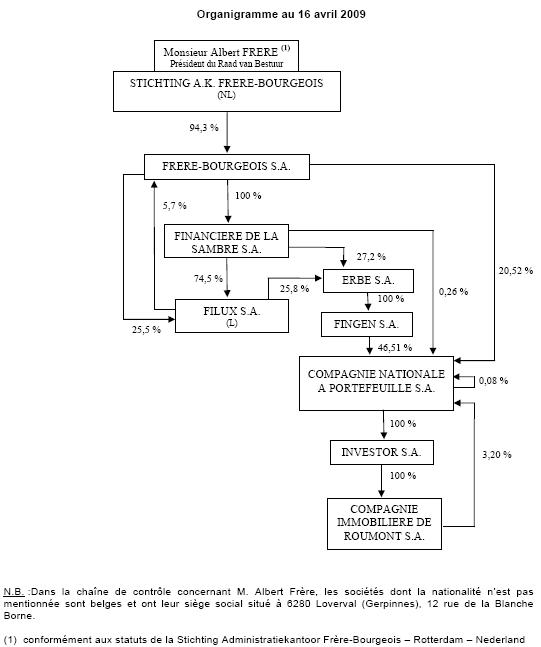 Shareholder structure of Frère Groupe from published company data as of April 2009 and may change anytime.